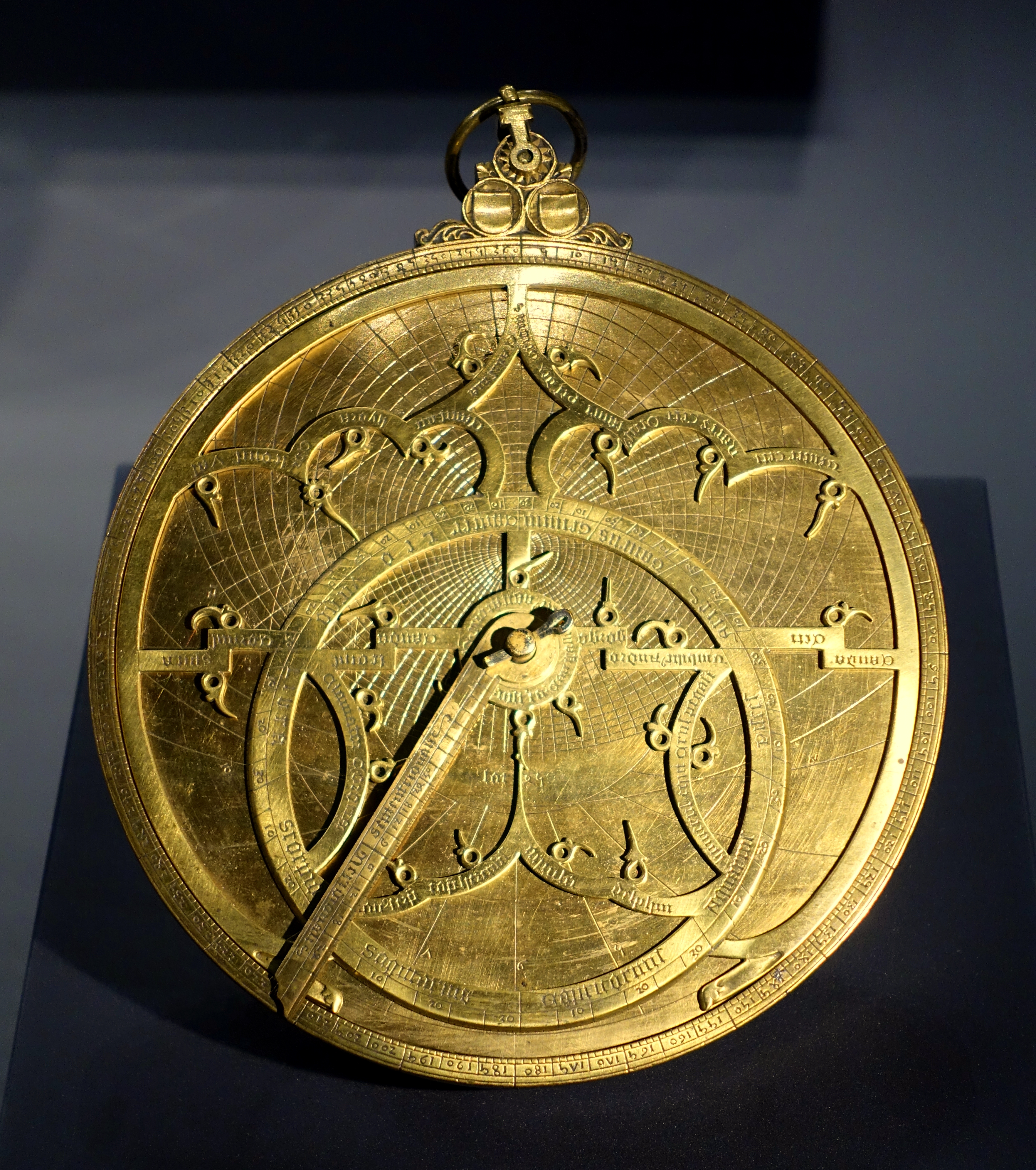 Exhibit in the Hessisches Landesmuseum Darmstadt - Darmstadt, Germany.